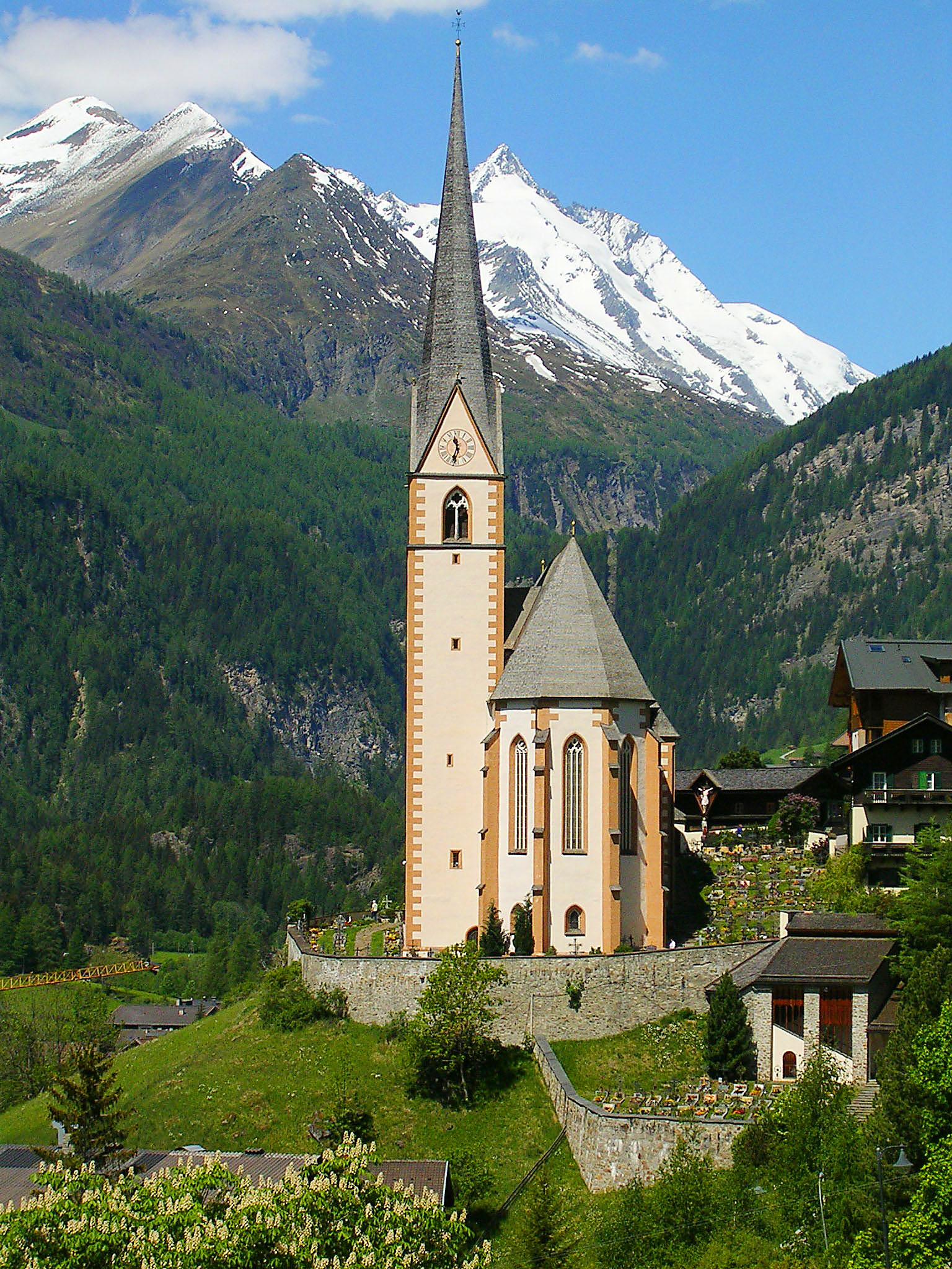 The church of Heiligenblut. In the background the highest mountain of Austria, the Grossglockner.